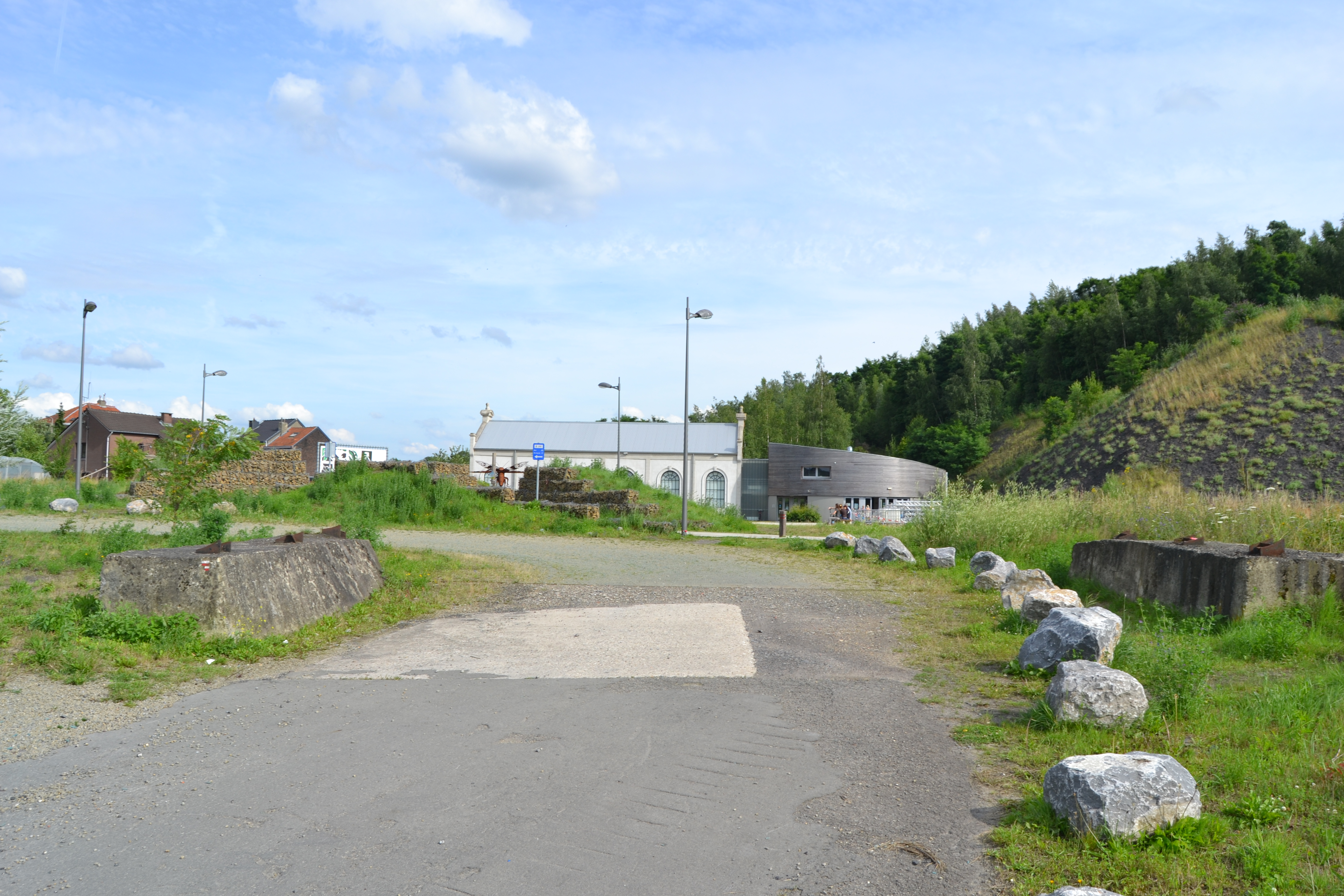 Ancient pit of the Gosson coal mine in Saint-Nicolas, Belgium